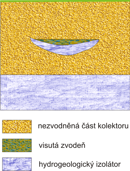 Perched groundwater body